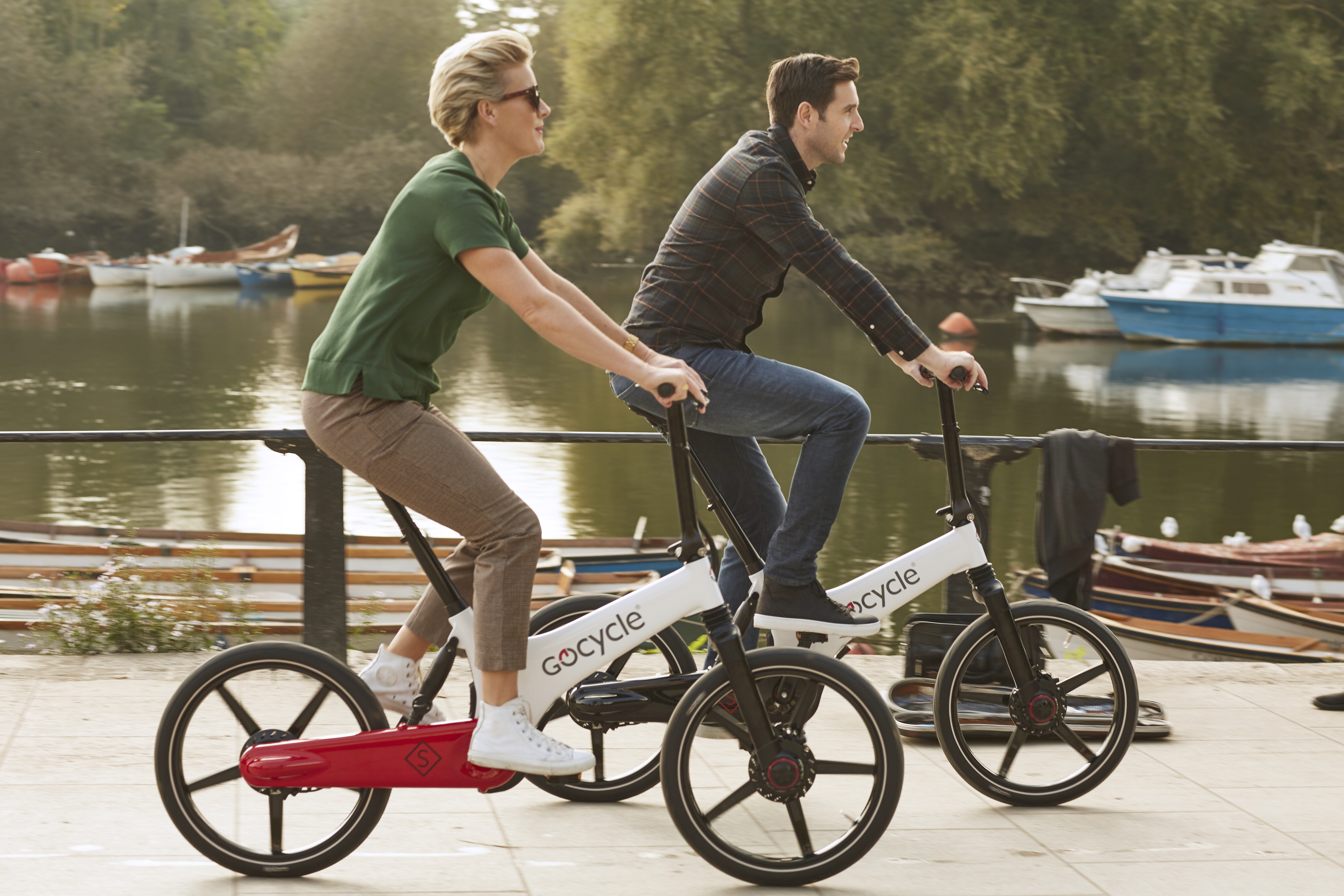 GS Riding